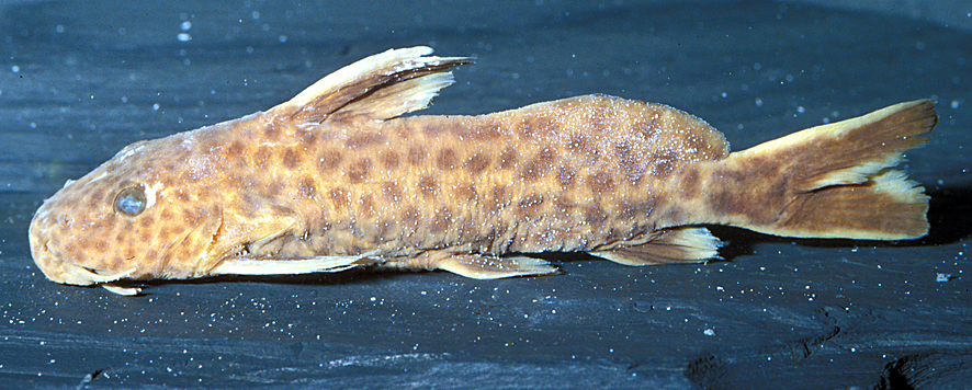 preserved holotype of Synodontis petricola in the Africamuseum Tervuren Belgium